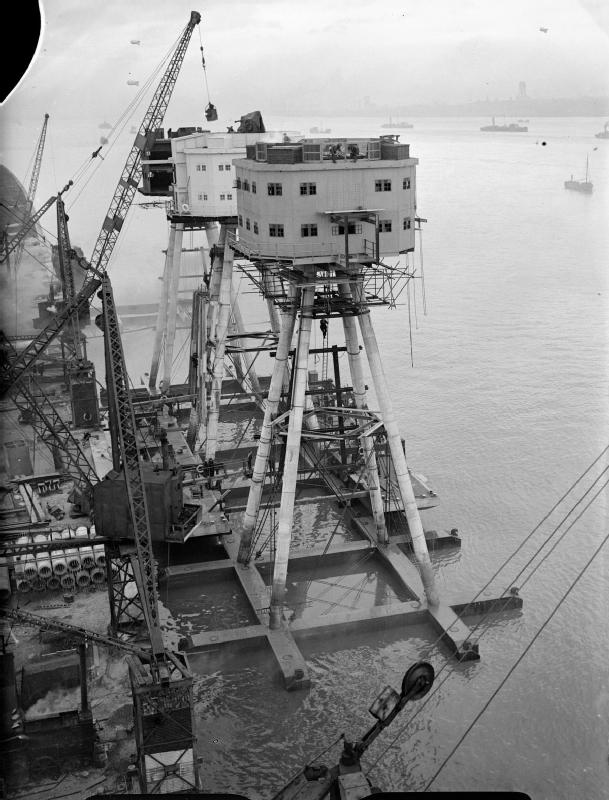 The Royal Navy during the Second World War 120 foot Maunsell anti-aircraft forts for use in the Mersey Estuary under construction at Bromborough Dock. Here they are well on the way to completion with the accommodation block fitted to the four long legs that will rest on the sea bed.